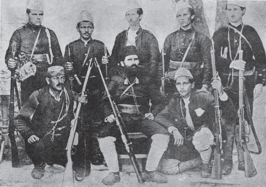 Bulgarian revolutionary cheta of Alexo Stefanov